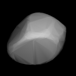 3D convex shape model of 3015 Candy, computed using light curve inversion techniques. J. Hanuš, J. Ďurech, M. Brož, B. D. Warner (June 2011). "A study of asteroid pole-latitude distribution based on an extended set of shape models derived by the lightcurve inversion method". Astronomy and Astrophysics 530: A134. ISSN 0004-6361. arXiv